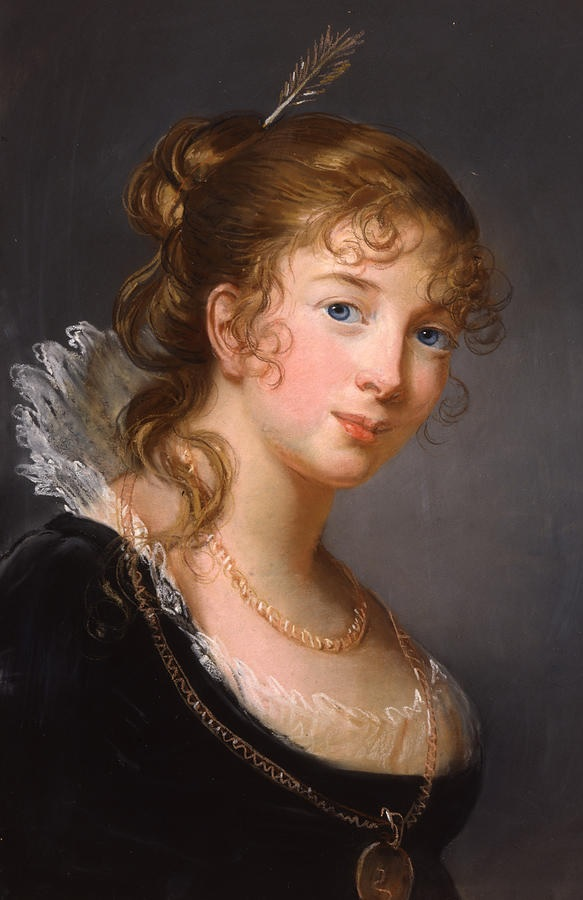 Princess Louise of Prussia (1770-1836), pastel study, 1801